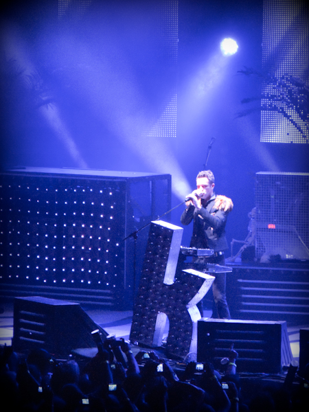 The Killers on stage